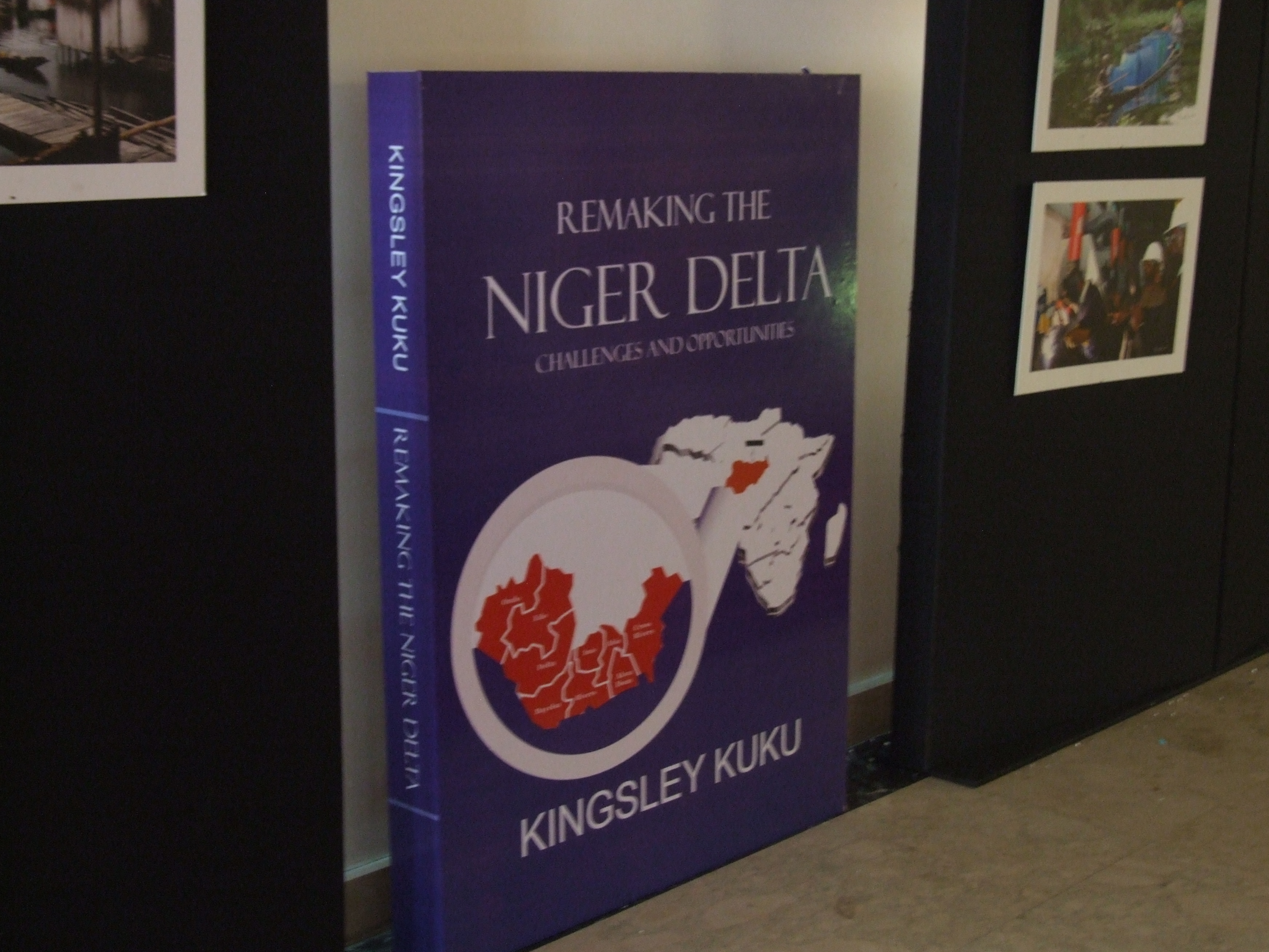 picture of kuku book